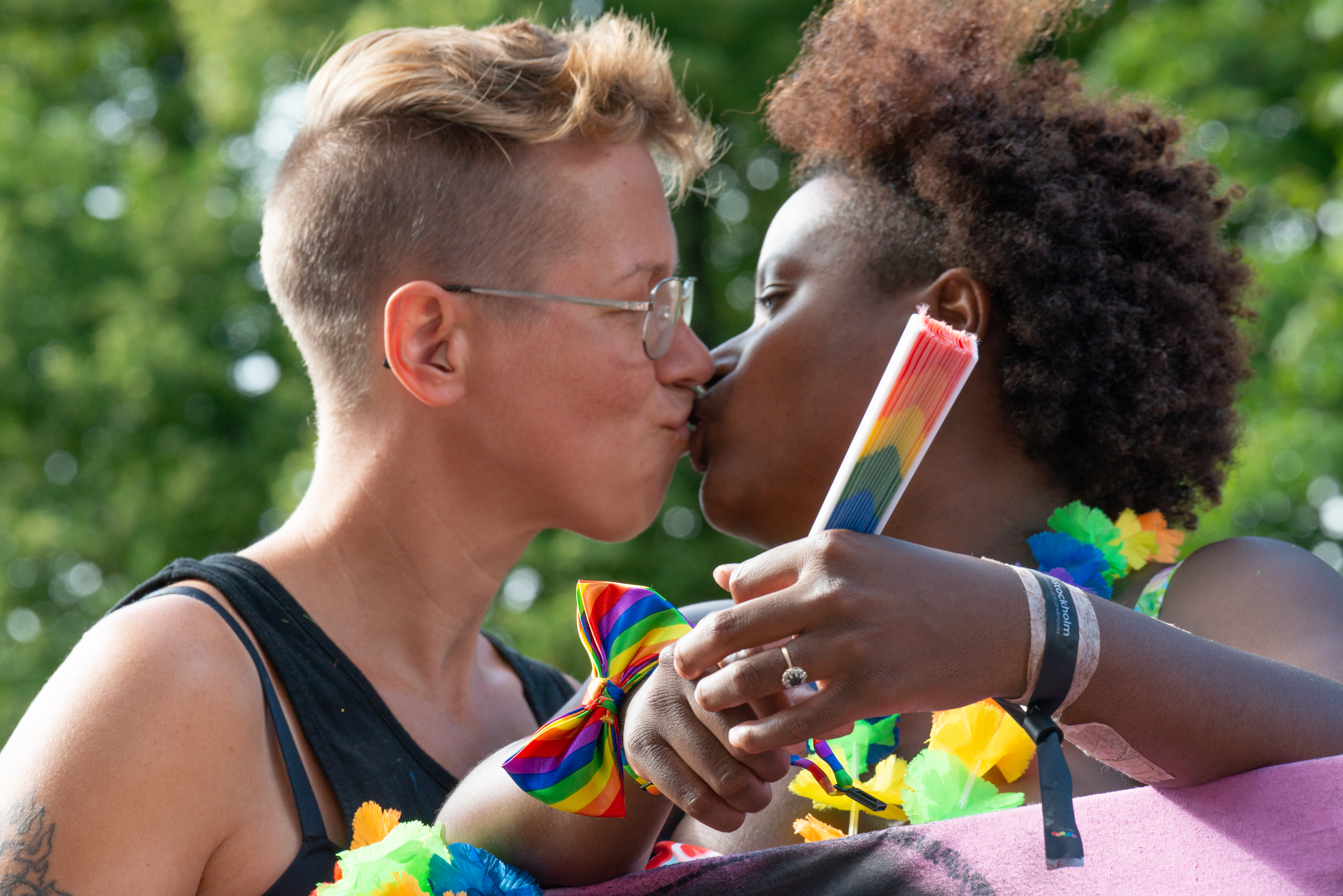 Europride in Stockholm 2018. Pride parade the 4th of August